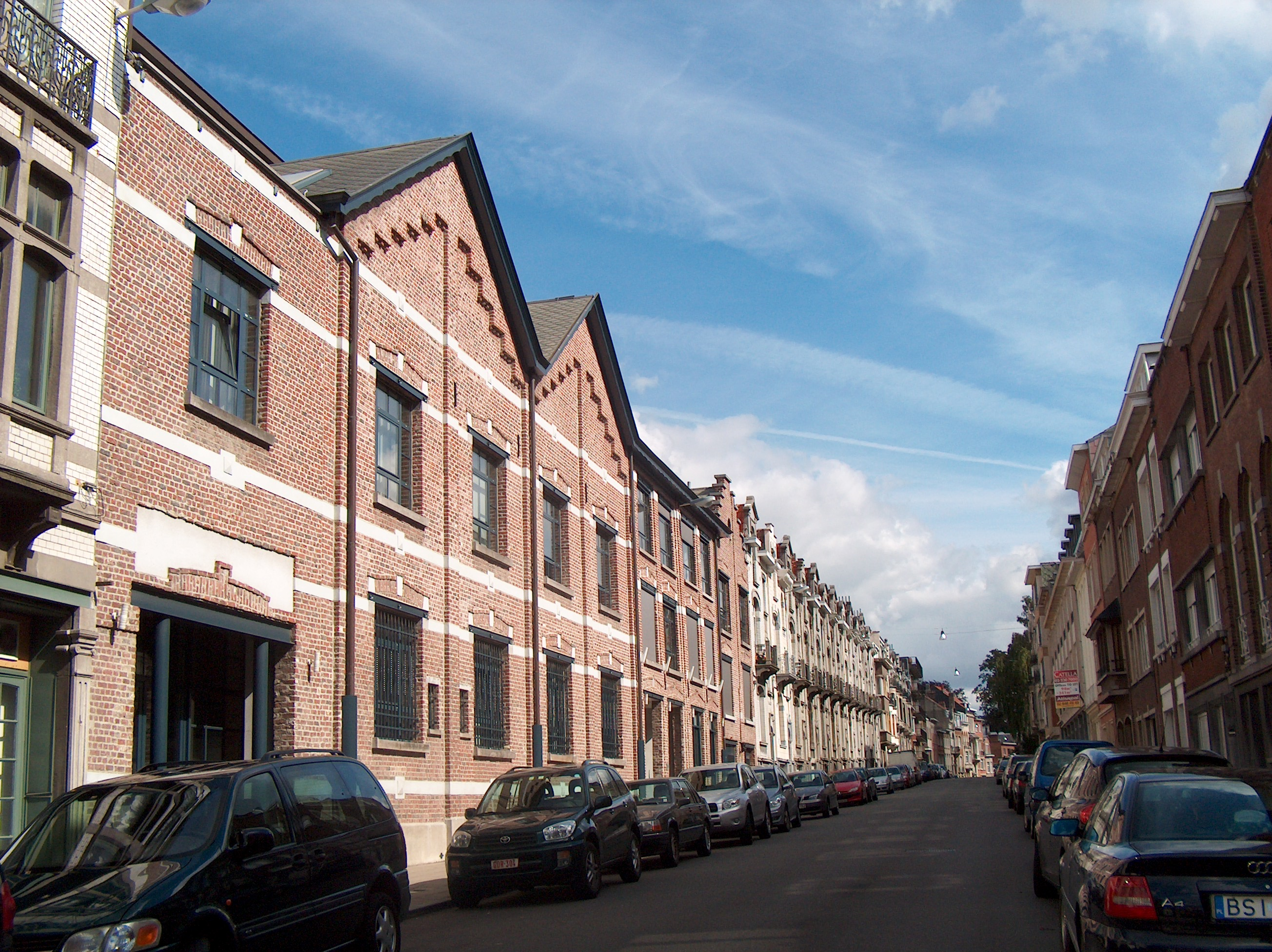 Brussels, Schaerbeek, rue Frédéric Pelletier. Headquarters of the news agency Belga in 2007.